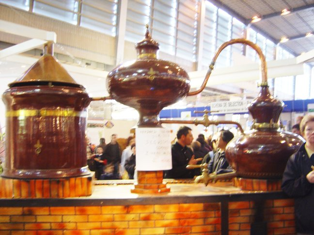 A pot still for making Cognac